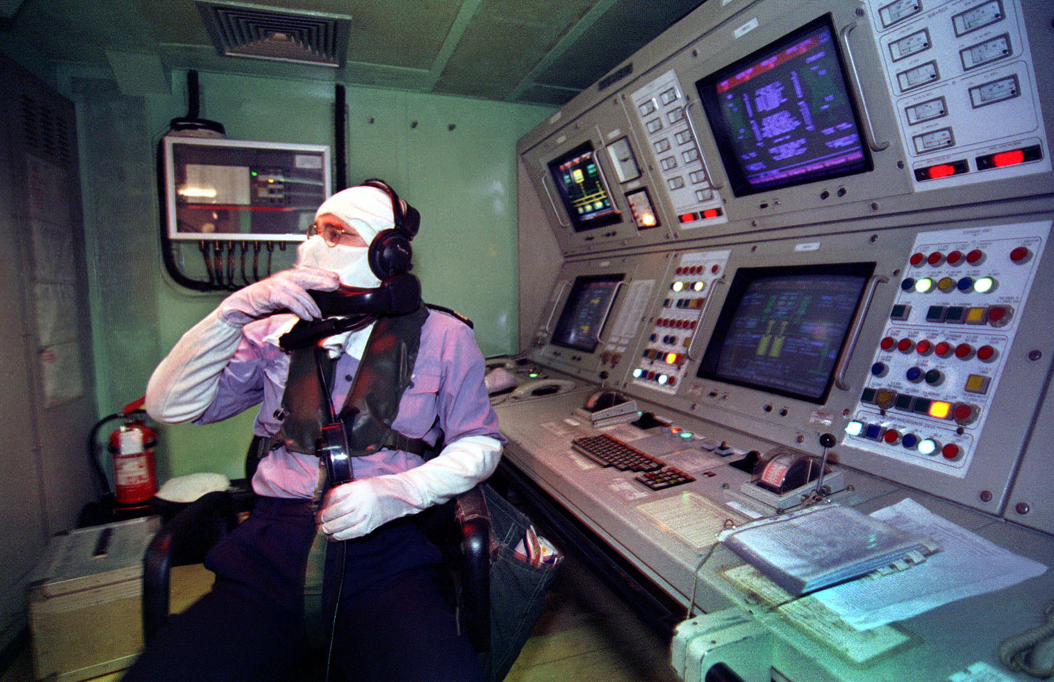 A Portuguese Sailor listens as his exceutive officer (Not shown) directs a fire party from the Portuguese Frigate NRP VASCO DE GAMA'S (F 330), machine control room during a capability enhancement training (CET) exercise. The VASCO DE GAMA is operating with other NATO Navy ships off the coast of Portugal during exercise Strong Resolve '98, Crisis South on March 12th, 1998.